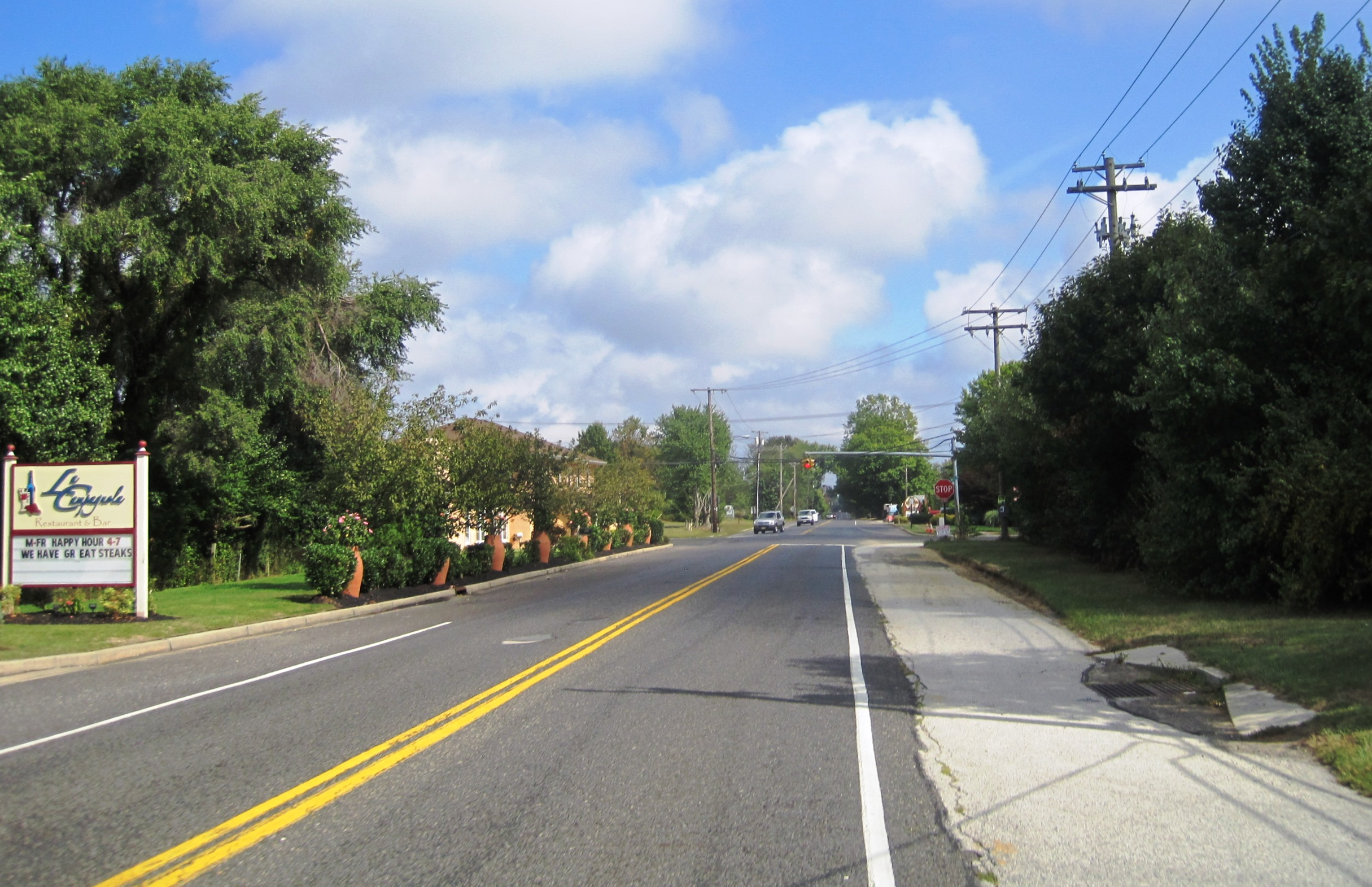 Photo of the unincorporated community of Small, New Jersey within Shamong Township. Photo taken on eastbound County Route 534 (Oak Shade Road) approaching its eastern terminus at Indian Mills Road (CR 620).